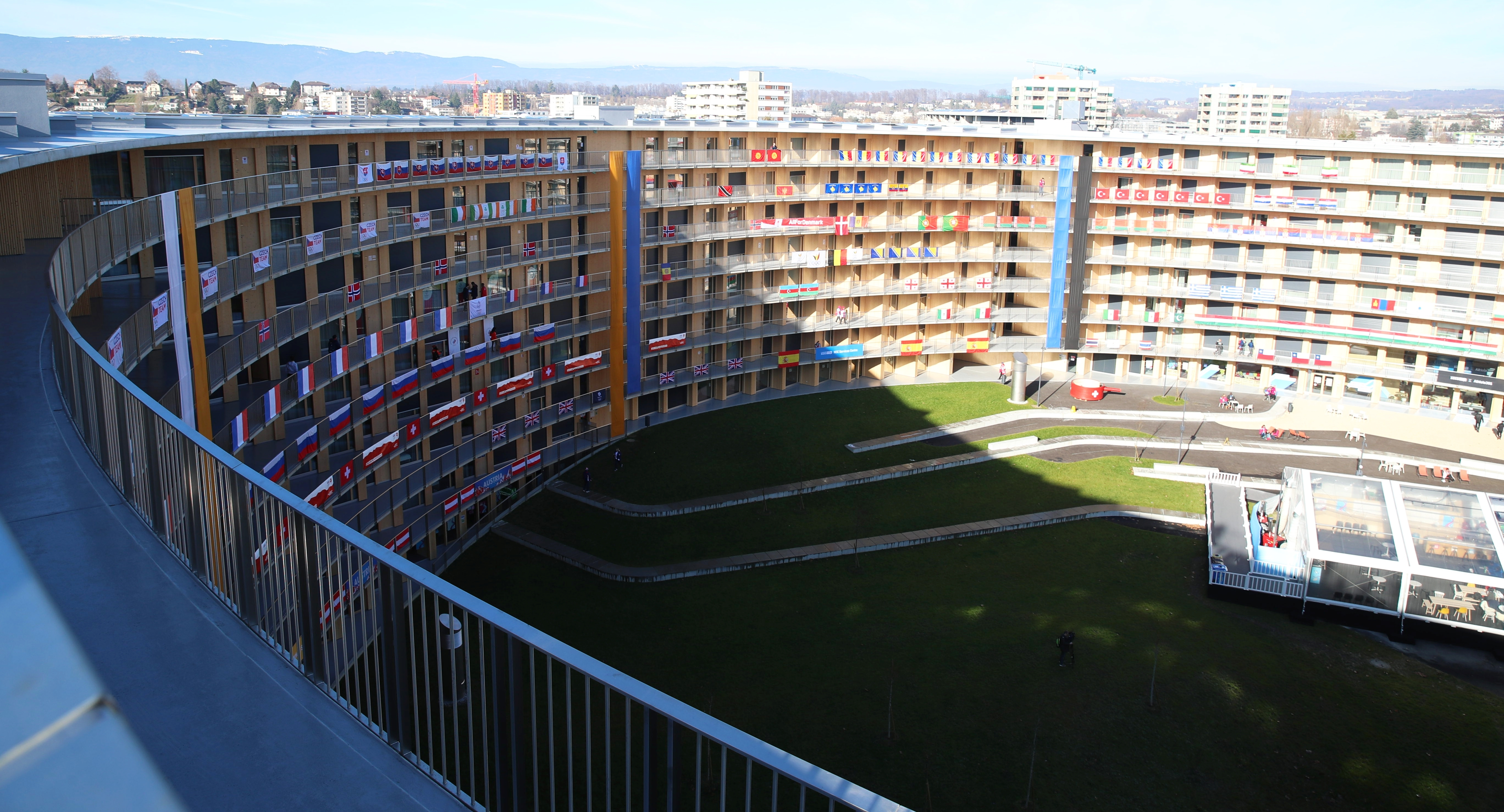 Media tour at the Youth Olympic Village in Lausanne